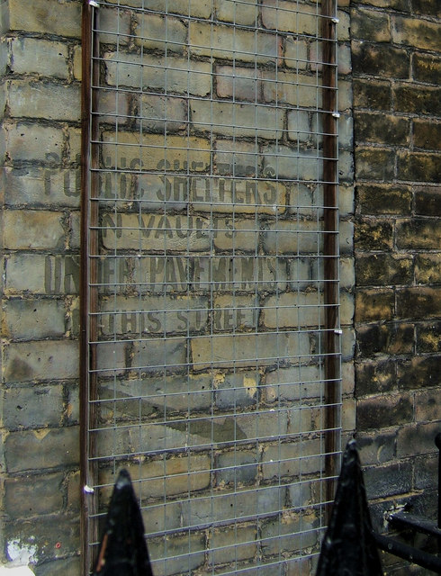 Second World War Public Shelter Sign, Longmoore Street, London SW1